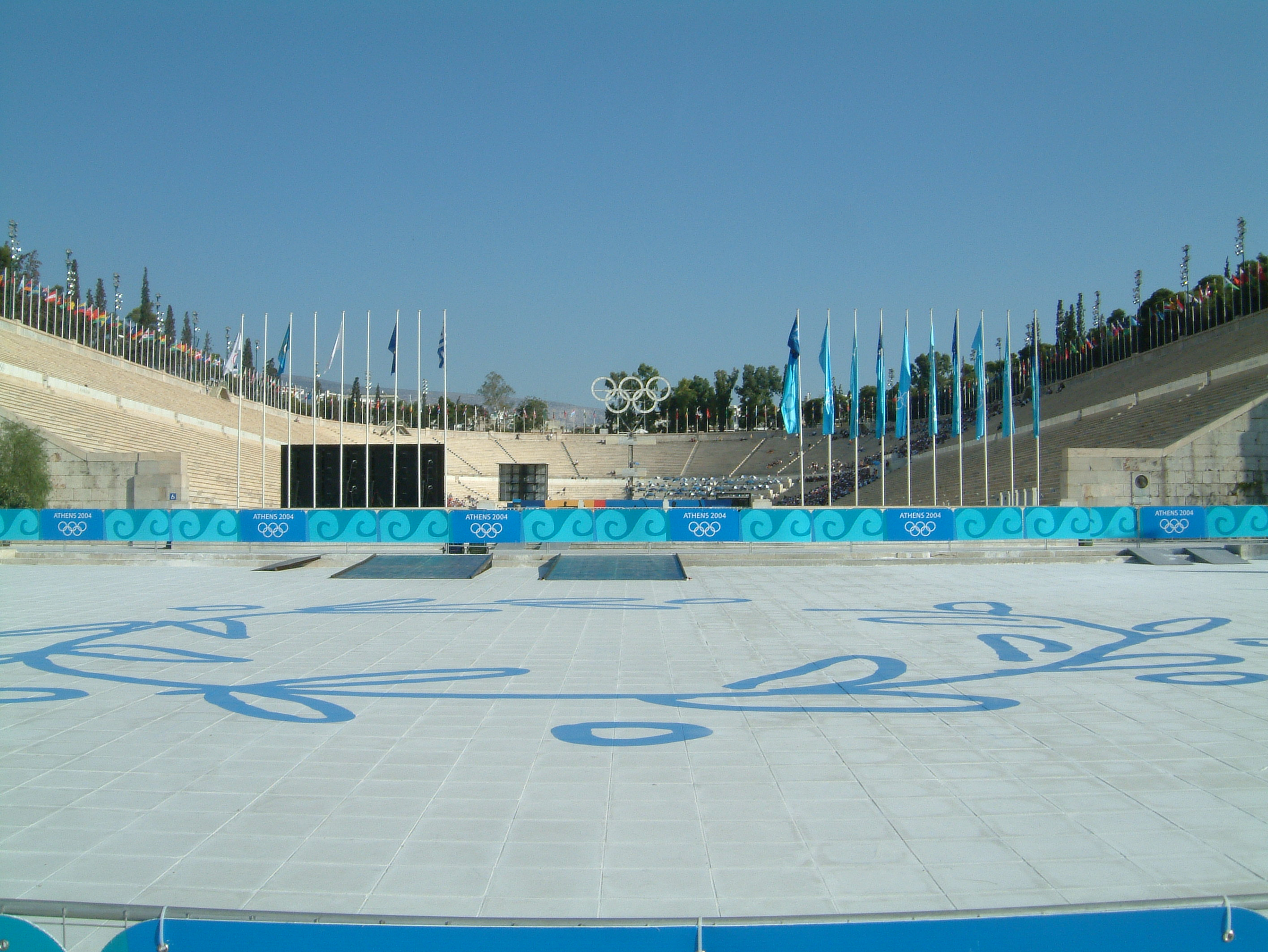 The Panathinaic - or Olympic stadium of the 1896 games- of Athens during the 2004 games. In front on the pavement is drawn the logo of the 2004 games.